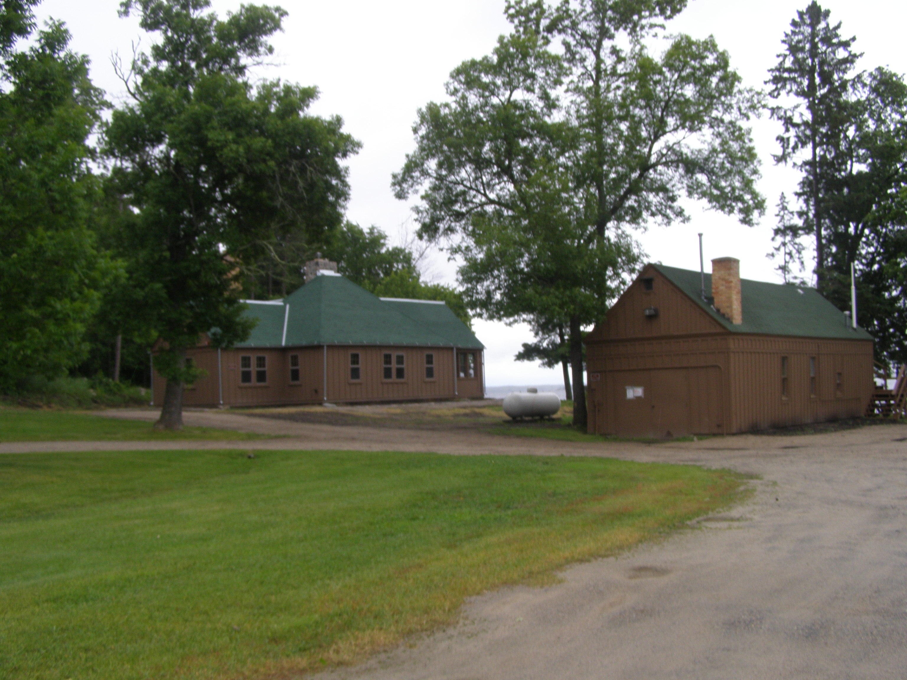 Park Service housing at the Kabetogama Lake Visitor Center.